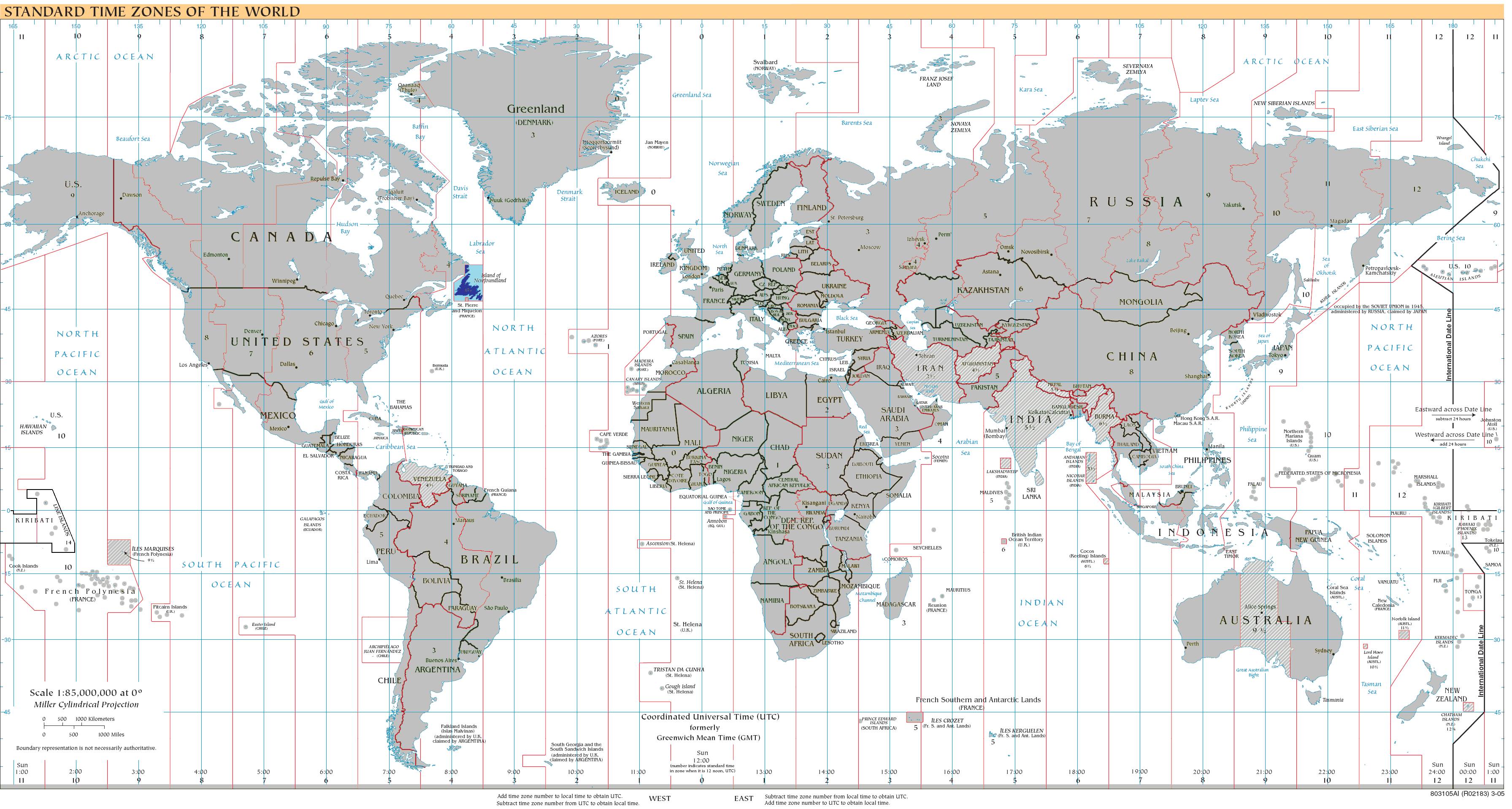 World map of time zones as of June 2008. Highlighting UTC-3:30; Dark Blue UTC-3:30 during Northern Hemisphere Winter